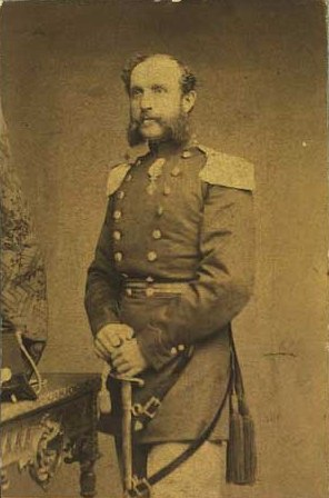 Carl Frederik Theodor (von) Zeilau (1829-1901), Danish army officer and politician, MP.